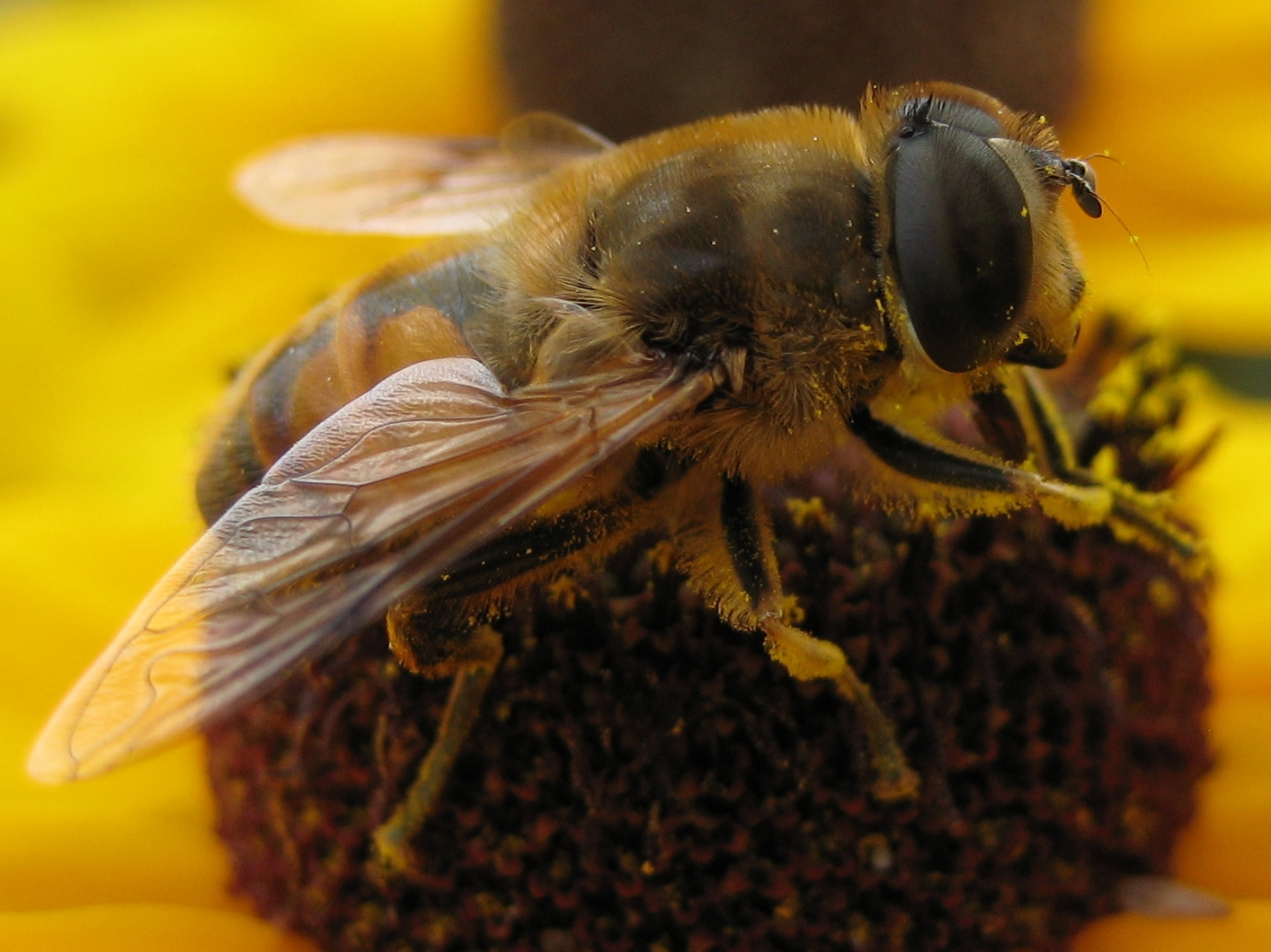 Hoverfly